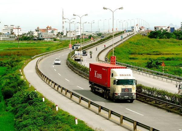 an duong traffic